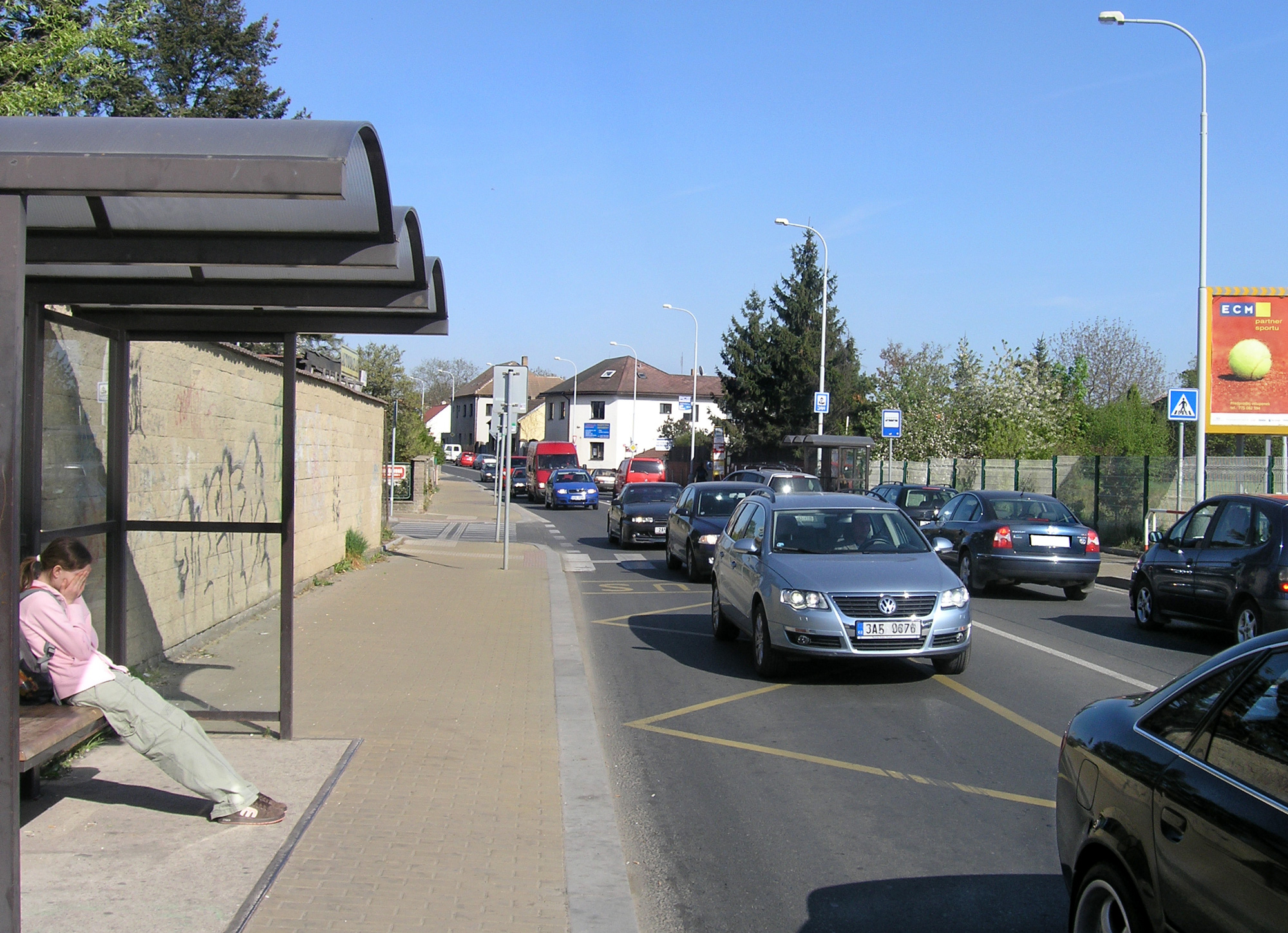 Meteorologická street at Libuš, Prague, rush hours